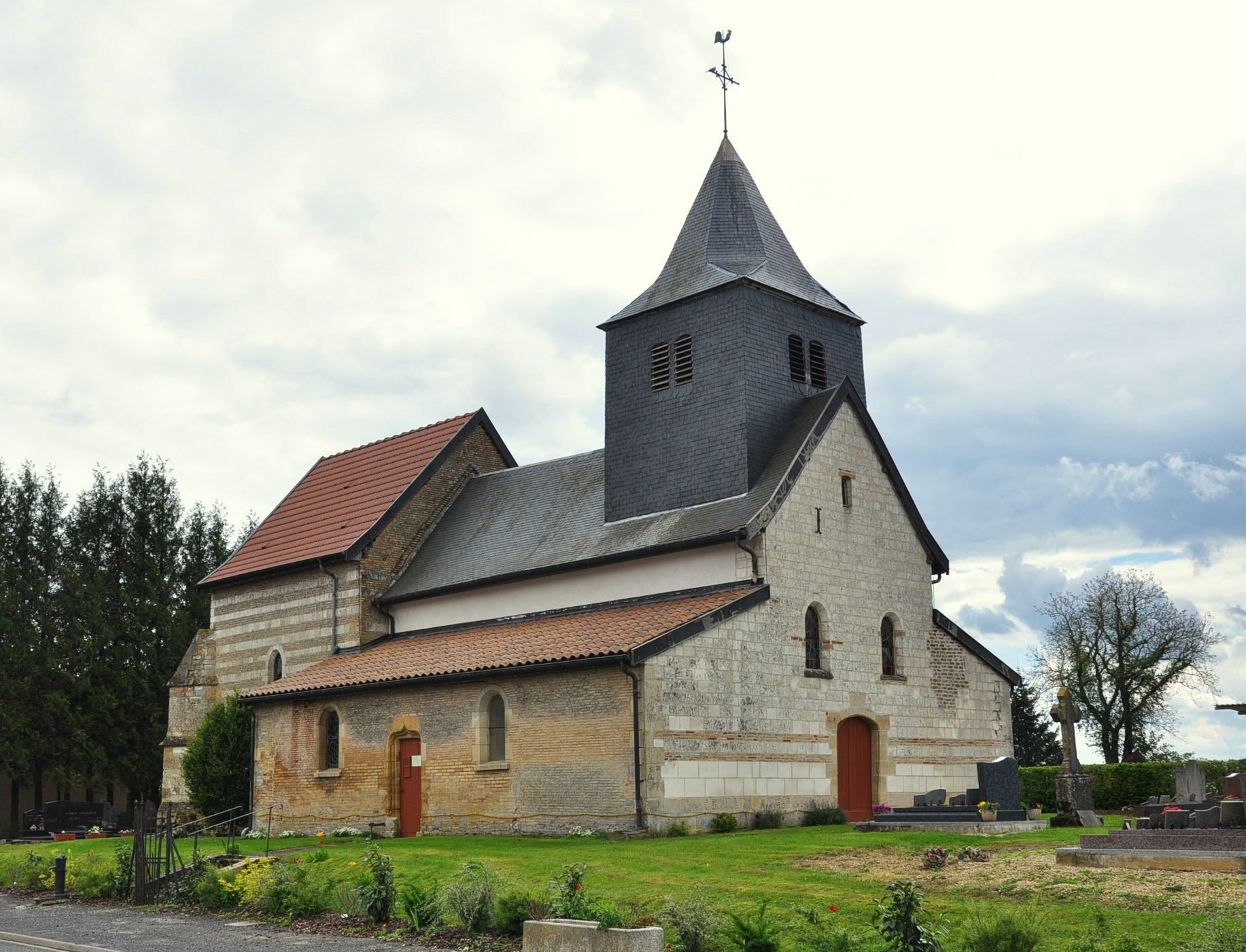 St. Nicholas' church in Daucourt (municipality of Élise-Daucourt, canton Sainte-Ménehould, arrondissement Sainte-Ménehould, Marne department, Champagne-Ardenne region, France).